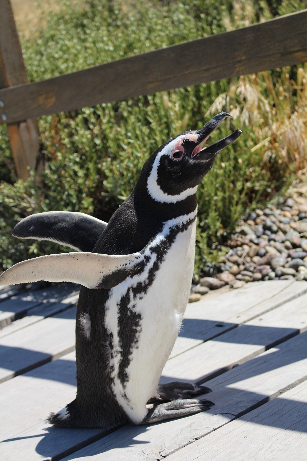 Spheniscus magellanicus in punta tombo